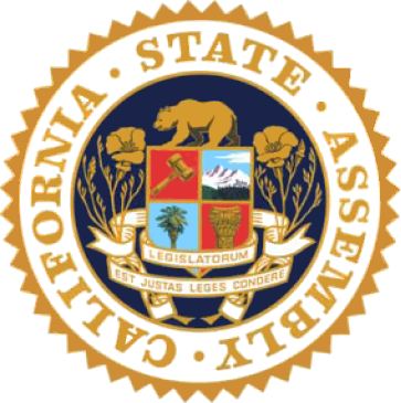 Seal of the California State Assembly